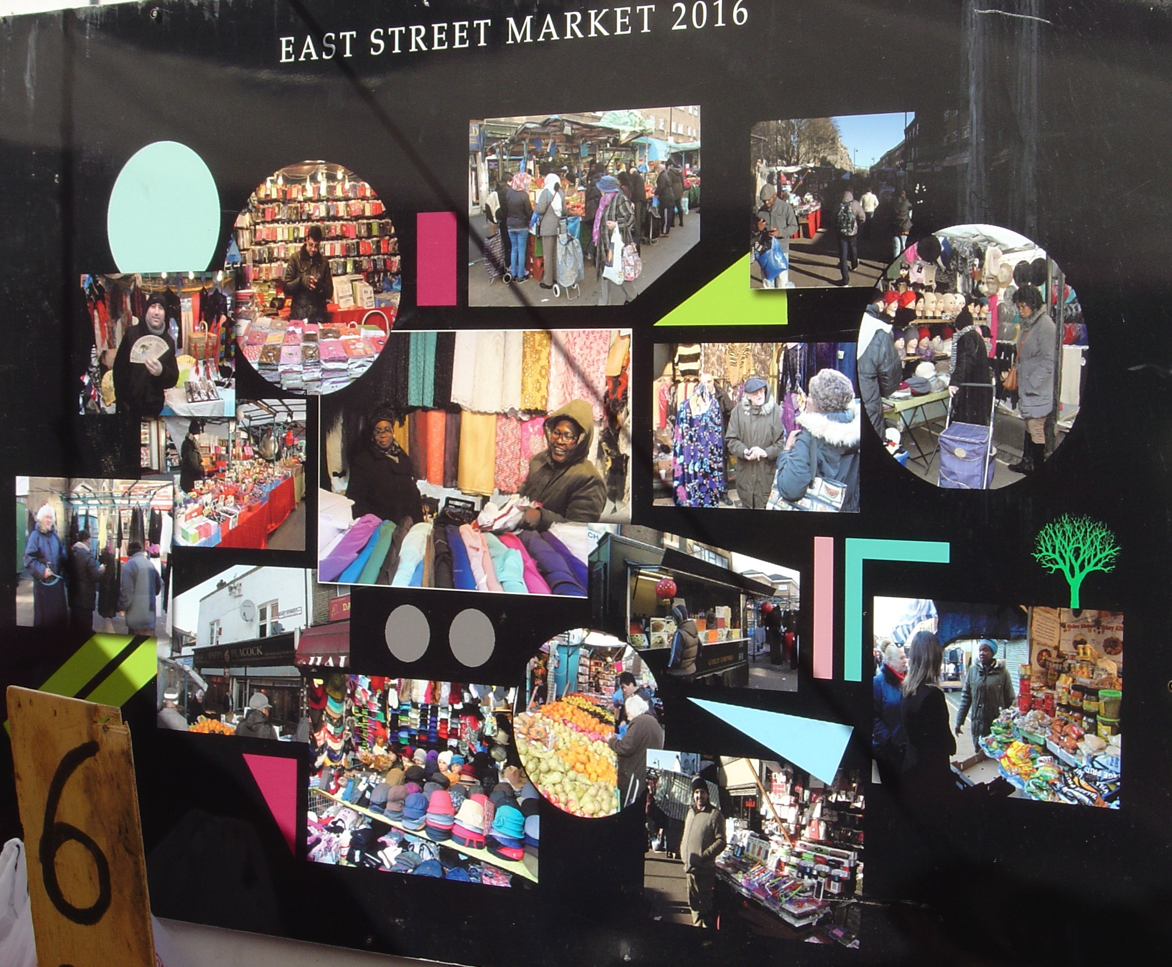 Photo montage of East St. market today